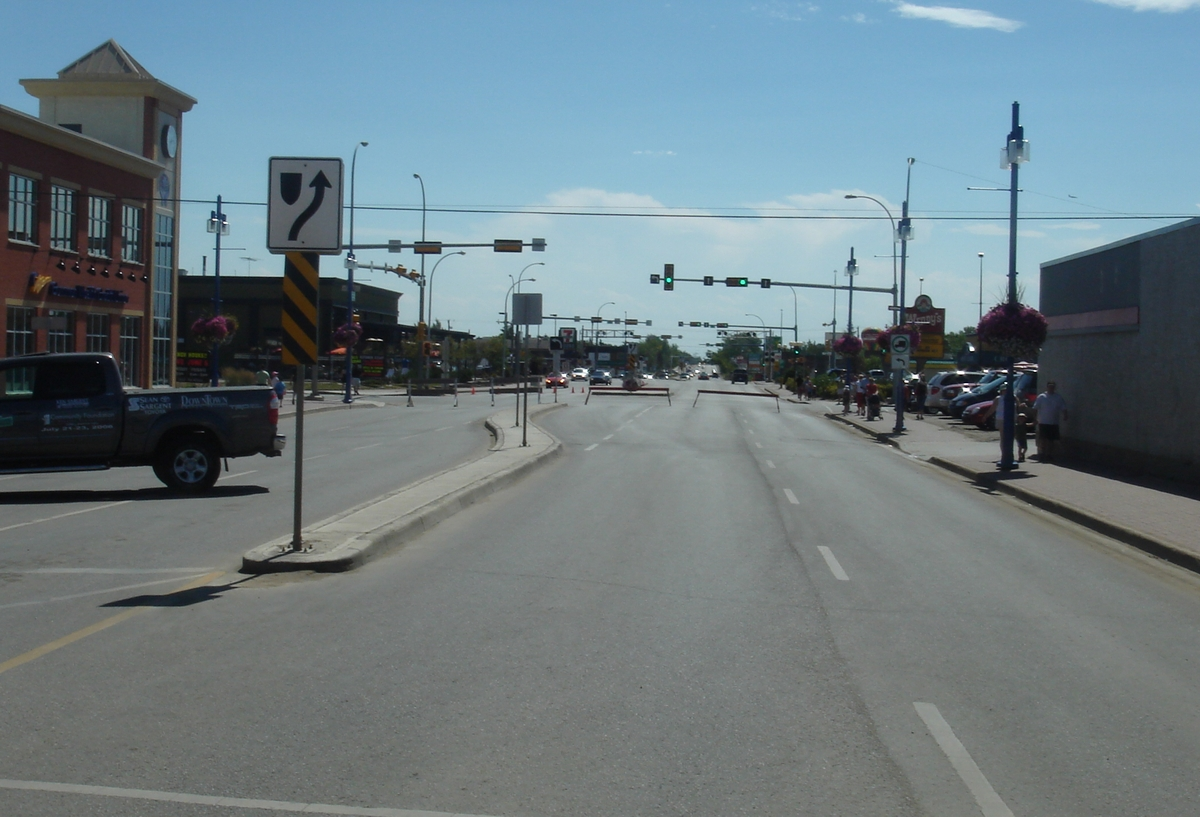 100St South from 100Ave:Centre of Grande Prairie, Alberta